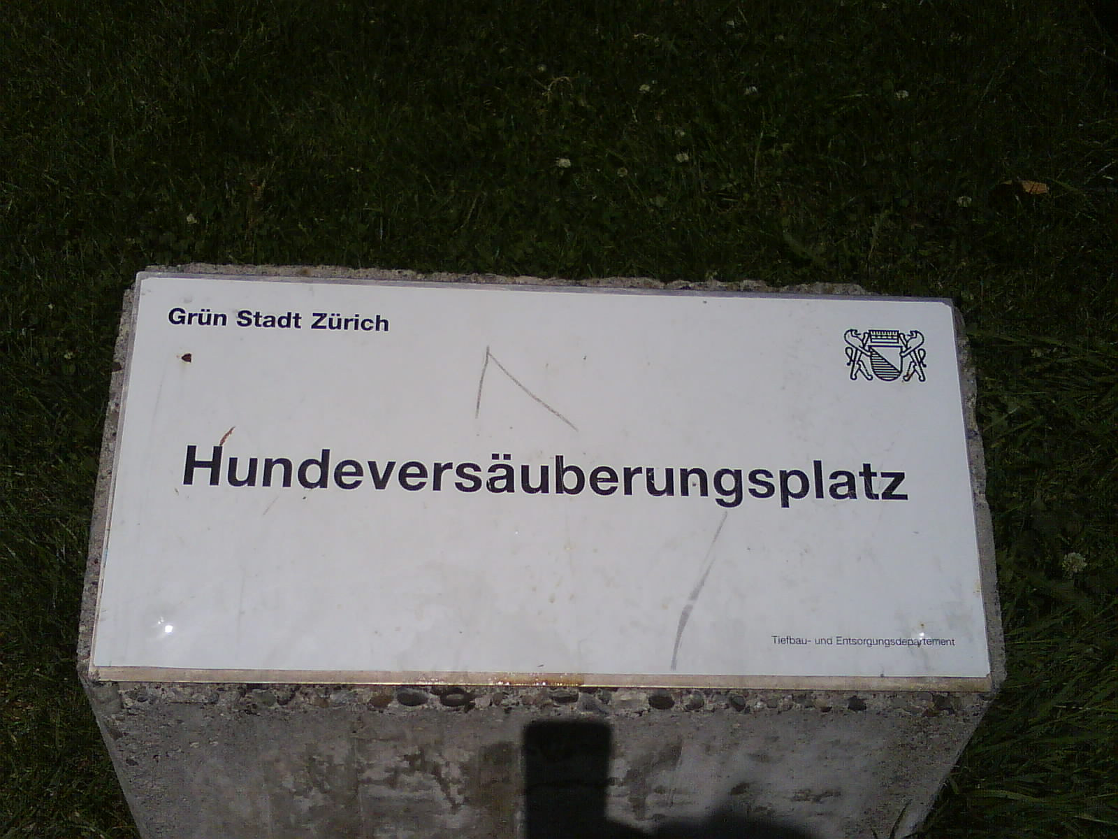 Sign of a Swis dog loo in Zurich